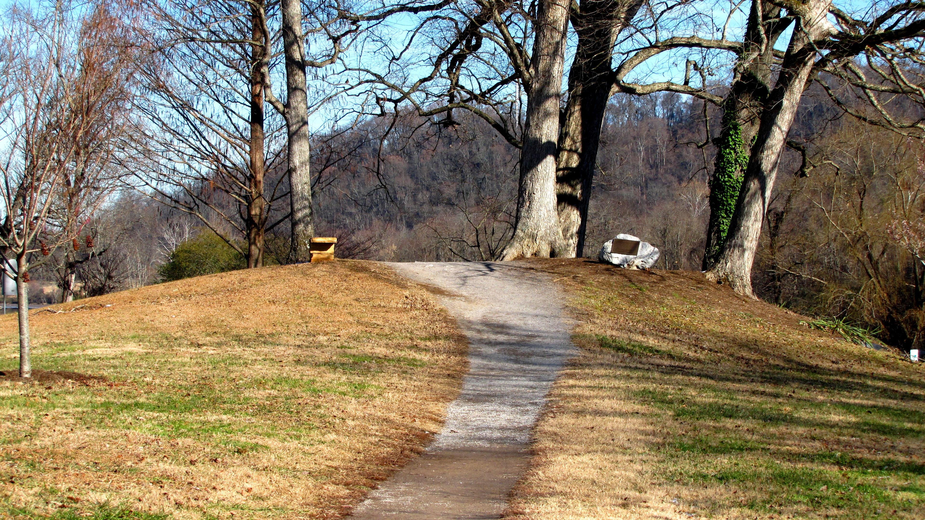 Native American burial mound in the Cherokee Boulevard median in Knoxville, Tennessee, USA. The plaque on the rock reads: This mound was constructed by Native Americans between A.D. 900-1100 and contains the remains of individuals who lived in nearby settlements. The mound was reduced in height due to agriculture and excavations in the early 19th Century. Another excellent example can be seen behind the University of Tennessee College of Veterinary Medicine on Neyland Drive.